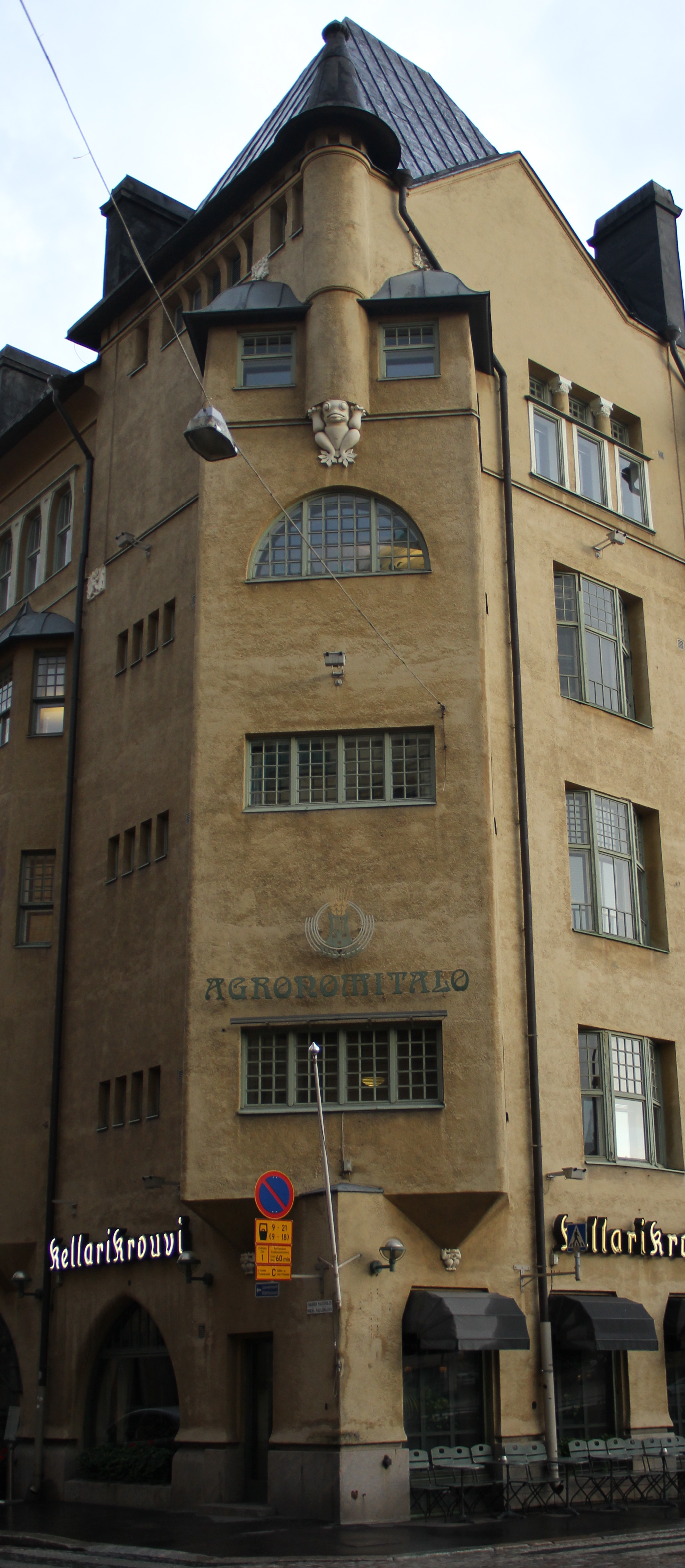 Argronomitalo, former Lääkäreiden talo, Kaartinkaupunki, Helsinki, Finland. - Designed by Gesellius, Lindgren, Saarinen Architects. Completed in 1901. - Corner of Fabianinkatu and Pohjoinen Makasiininkatu.